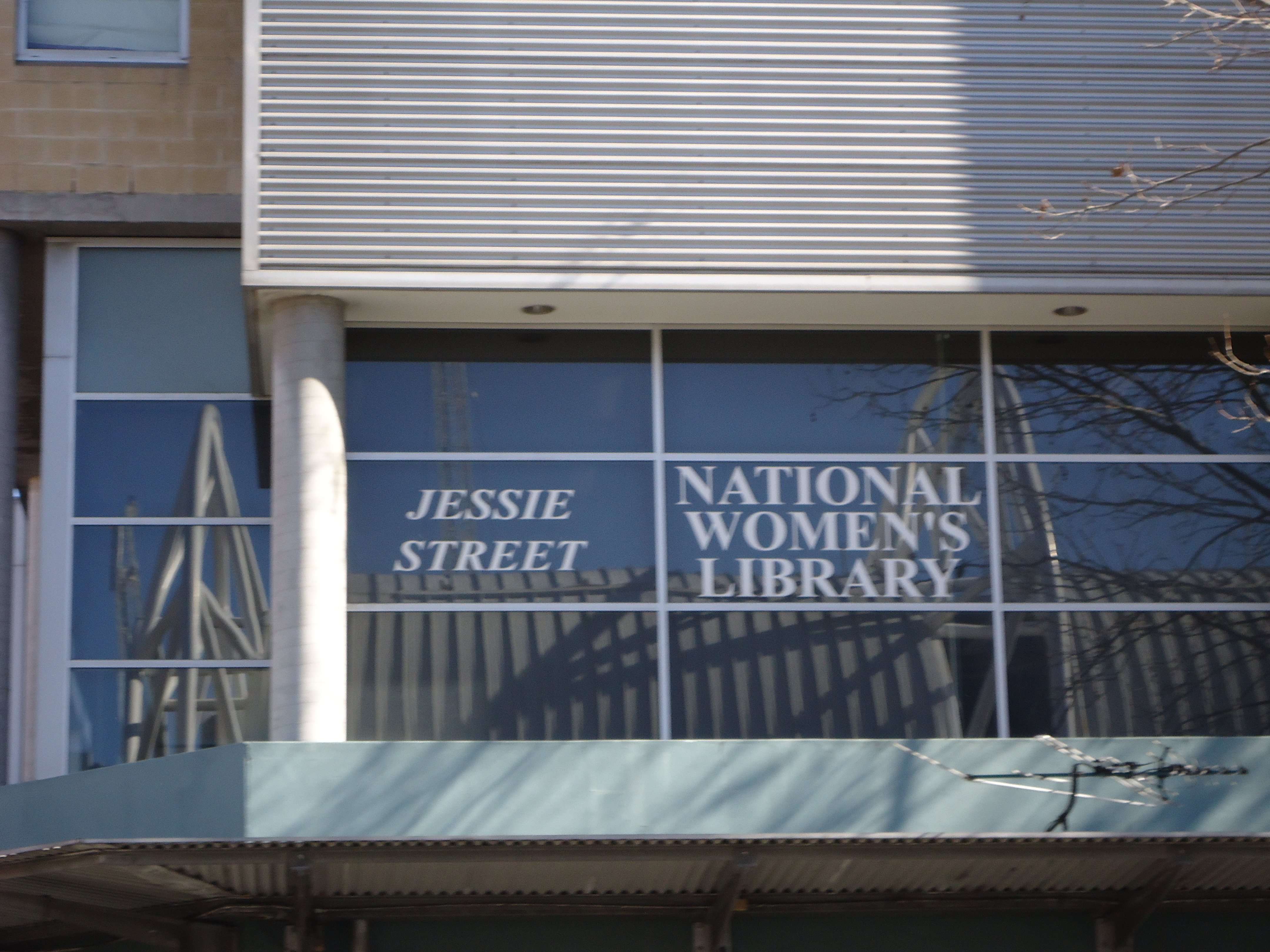 Exterior view of the Jessie Street National Women's Library in Ultimo, NSW. View is taken from street level of the 1st floor windows (2nd floor in US usage), showing the library's name.